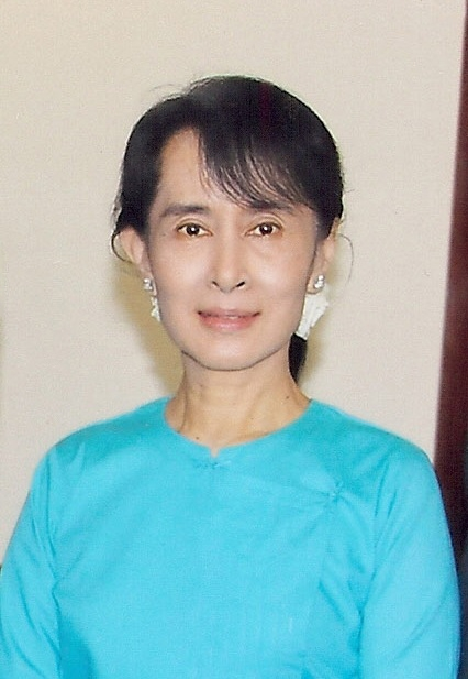 RANGOON/BURMA, 10NOV11 - Aung Sun Suu Kyi, General Secretary of the National League for Democracy at her home near Rangoon, Burma, 10 November, 2011. Copyright World Economic Forum (